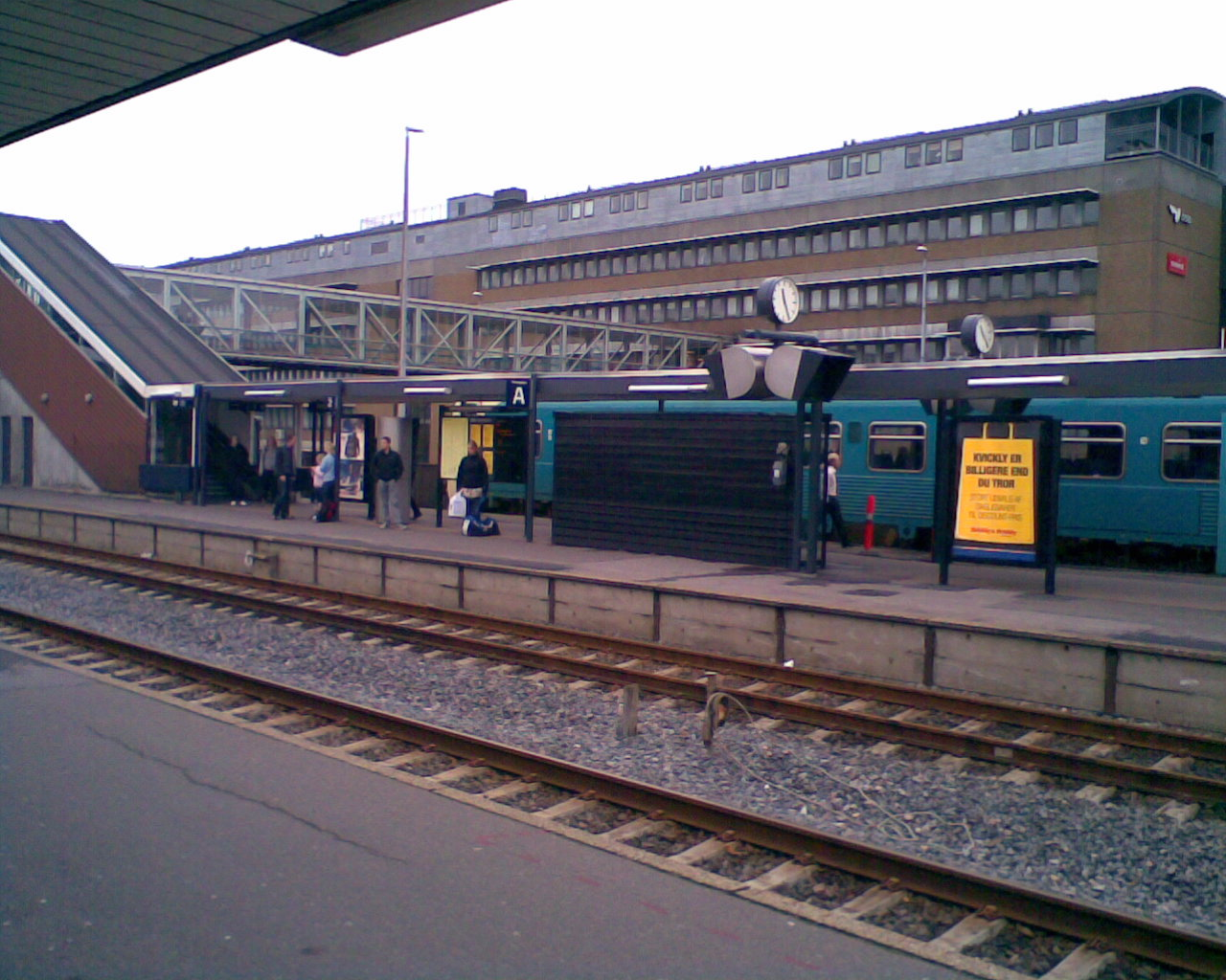 Herning Station, Denmark